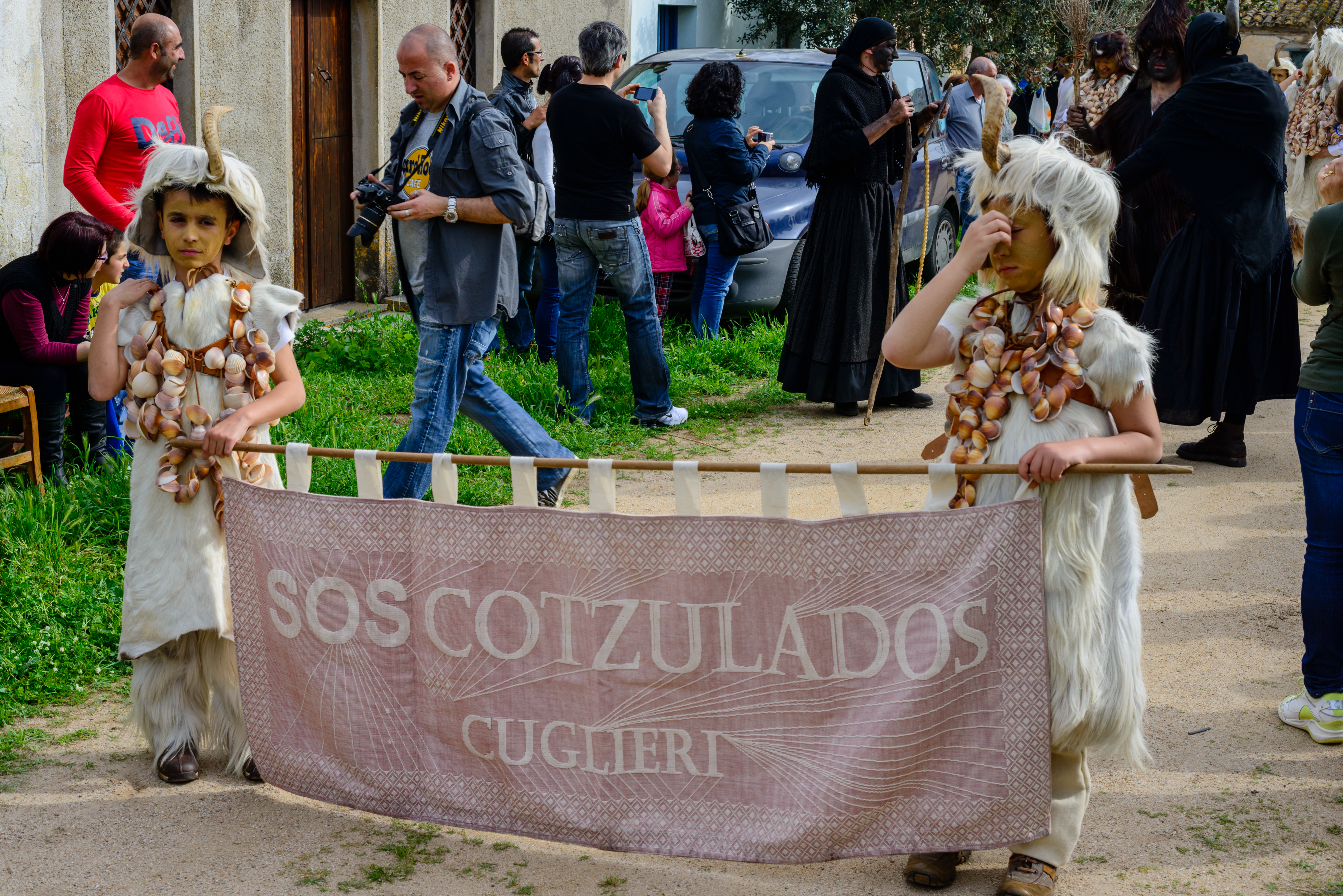 Sardinian Carnival - Sa Die de Sa Sardigna in San Salvatore (province of Oristano) - Sardinia - Italy - April 28th 2013.